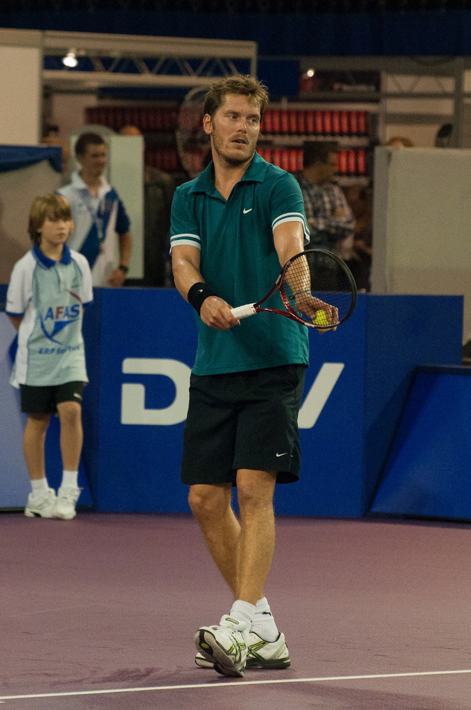 Thomas Enqvist serving at the 2010 AFAS Tennis Classics in Eindhoven, The Netherlands.